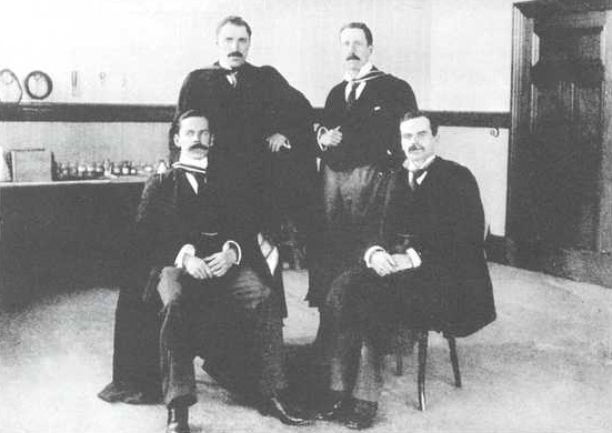 Foundation Professors of the University of Victoria, Wellington, New Zealand. Back-left: Hugh Mackenzie; back-right: Thomas Easterfield; front-left: Richard Maclaurin; front-right: John Rankine Brown.